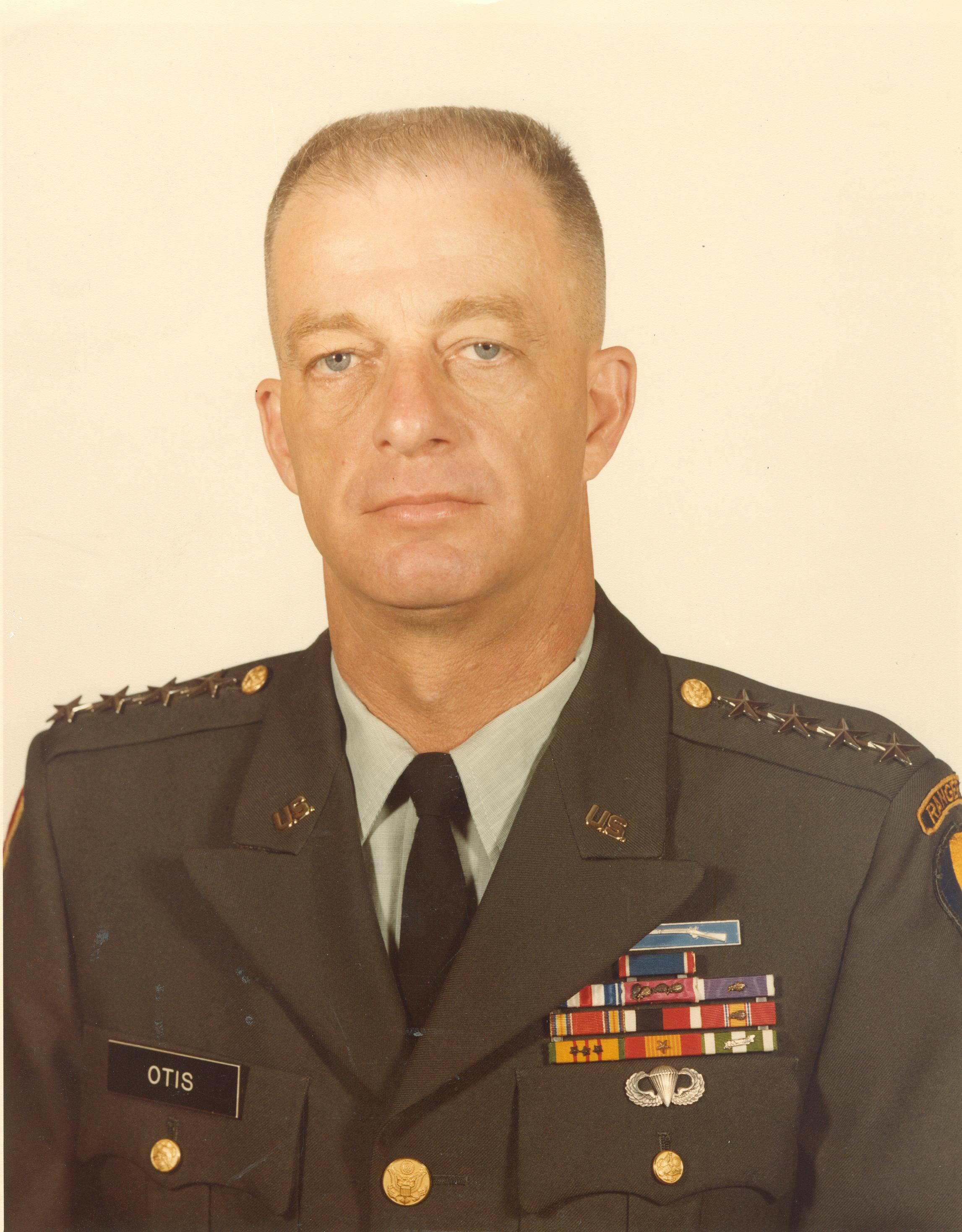 GEN Glenn K. Otis